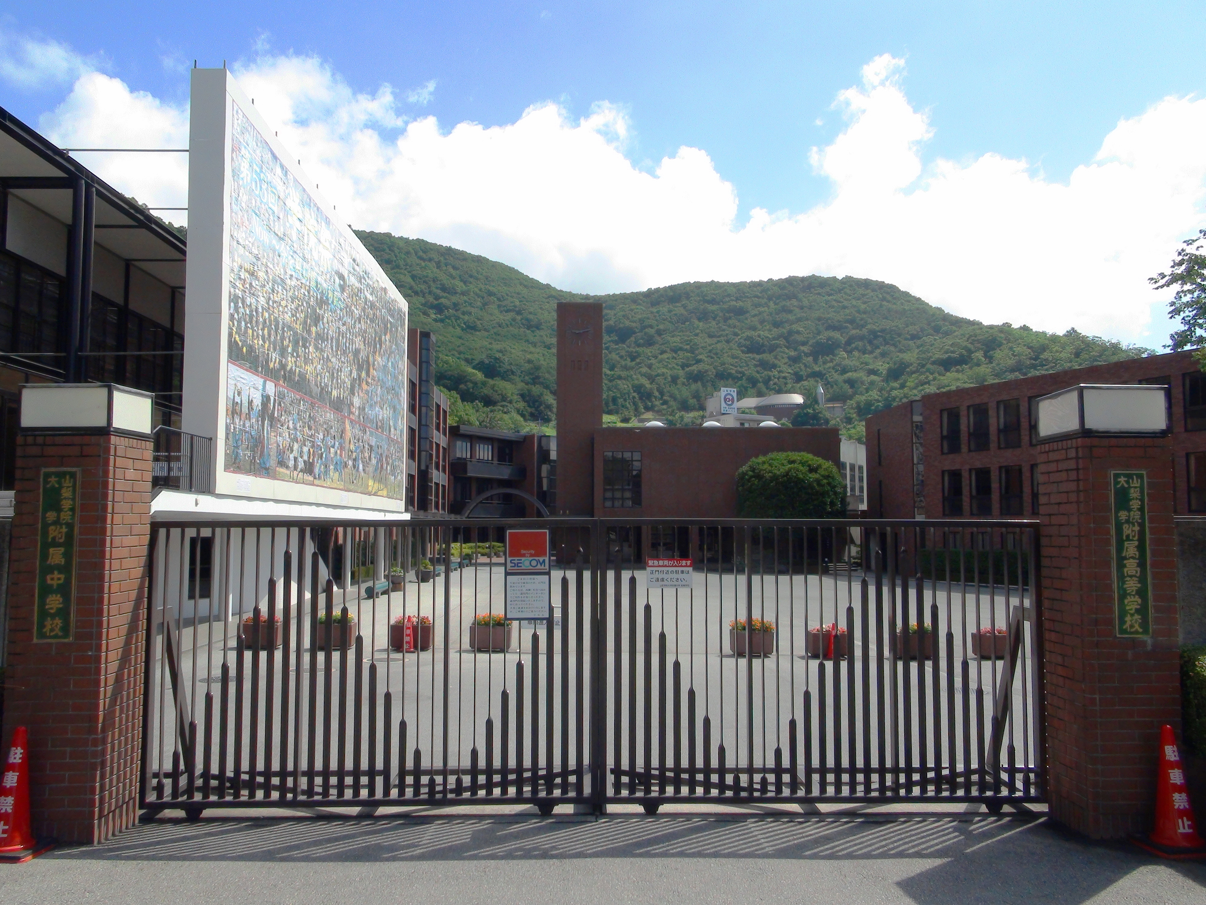 A gate of Yamanashigakuin-Junior high school Senior High School